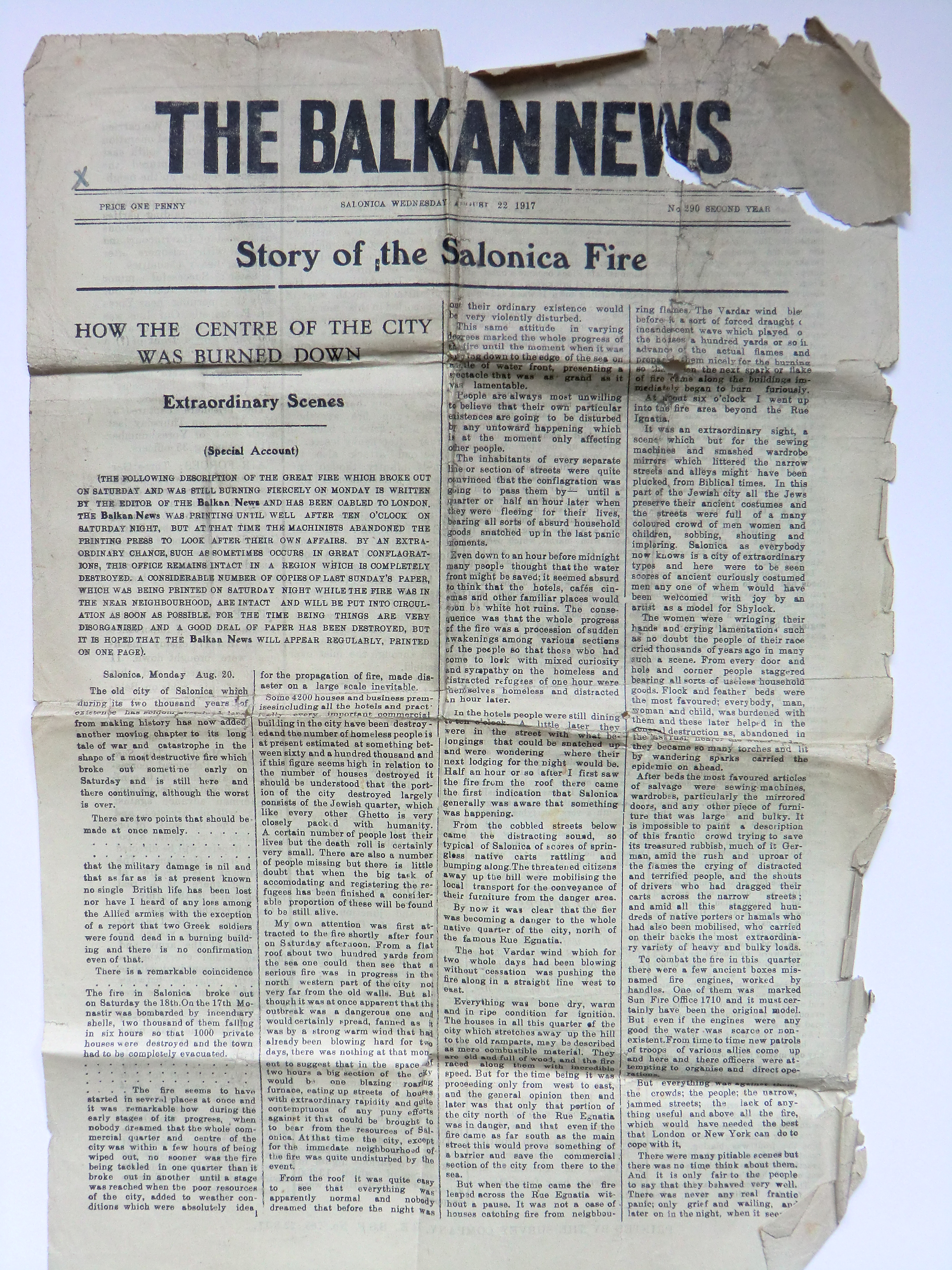 Balkan News Salonica